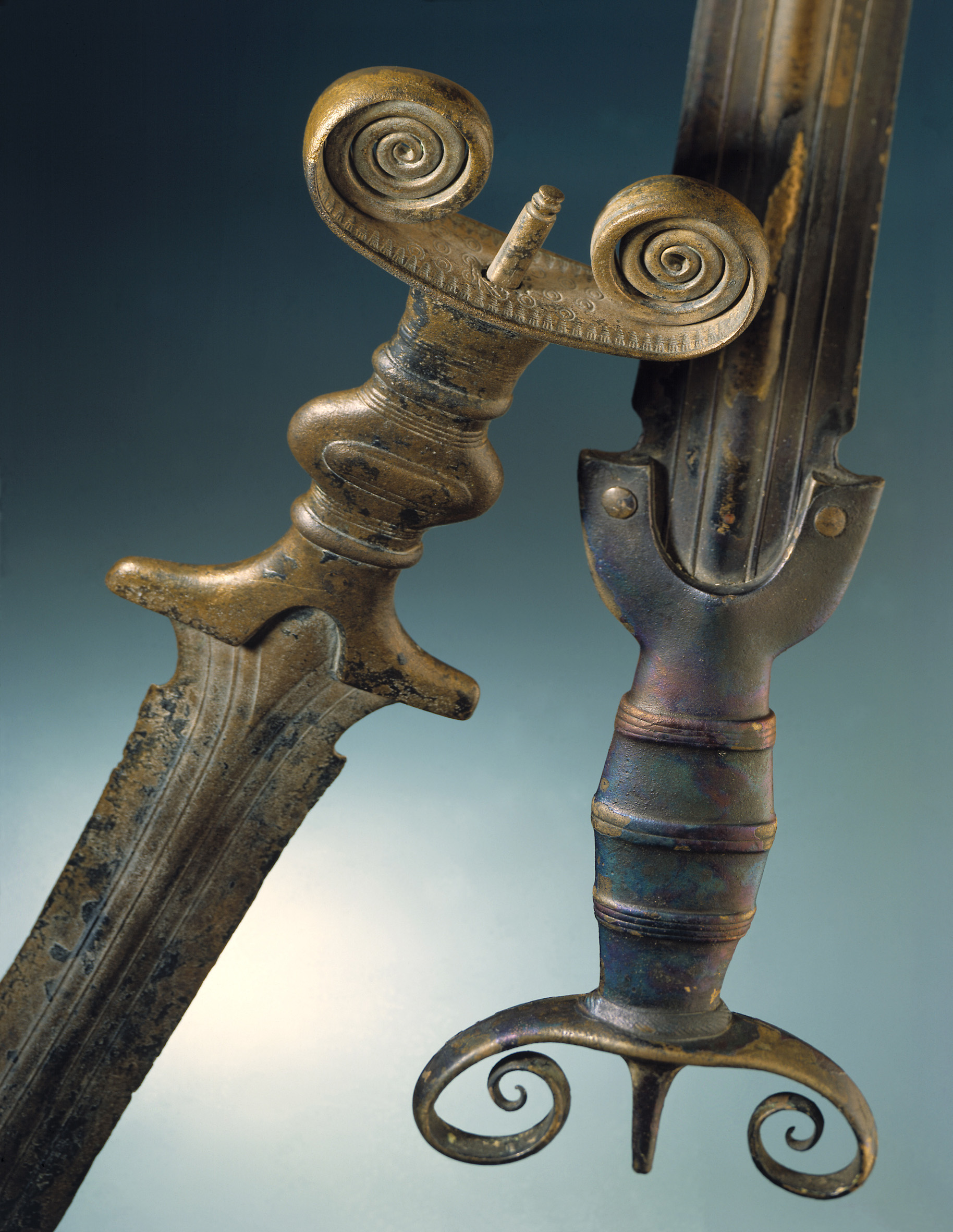 Bronze swords. Late Bronze Age (1000-900 B.C. ca), Auvernier et Cortaillod (Neuchâtel).N° inv. AUV-40315; CORT 216. Picture by J.-J. Luder / Laténium.